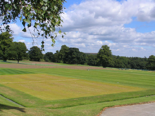 Sports Turf Research Institute. STRI at St. Ives Bingley is the independent market leader in turfgrass research and agronomy. It is the UK's national centre for consultancy in Sports & Amenity Turf and a recognised world centre for research.